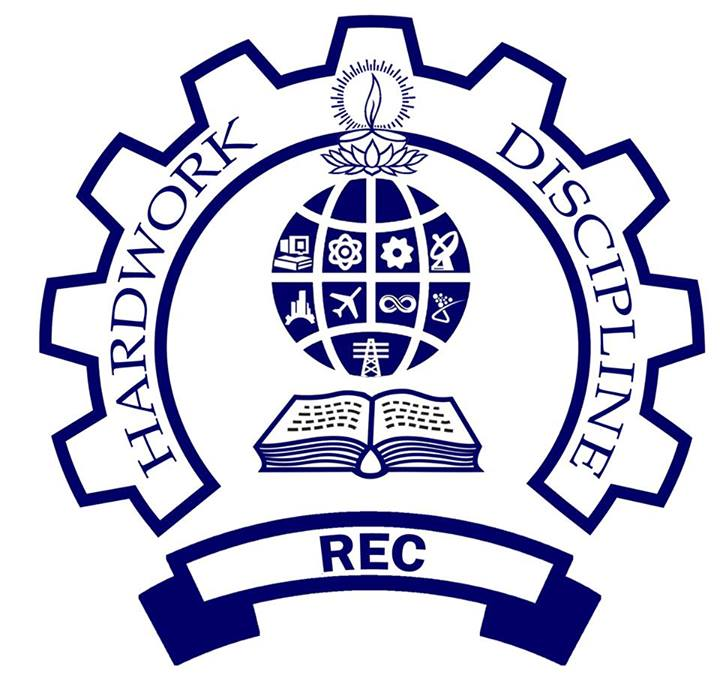 This is the Official Logo of Rajalakshmi Engineering College